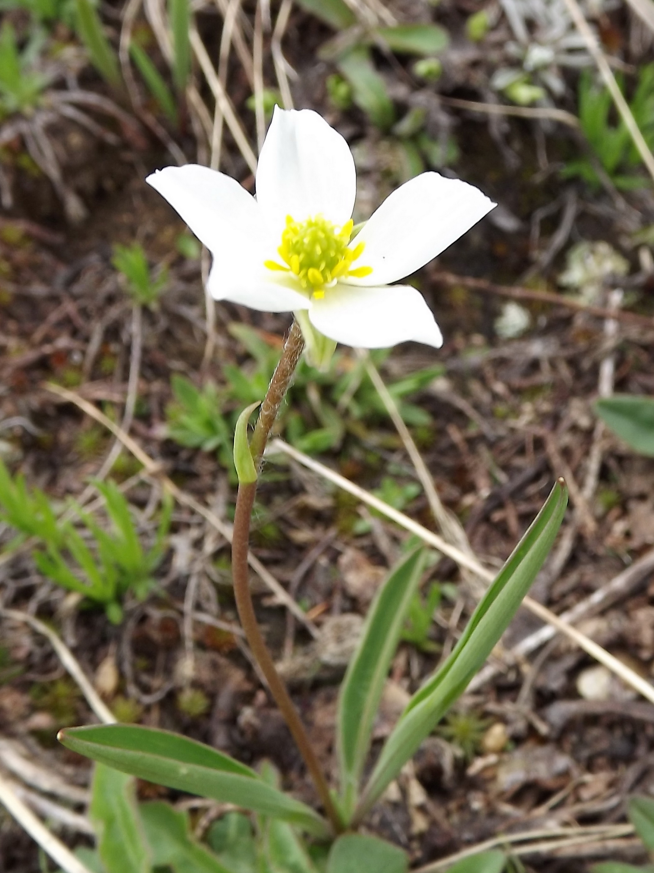 Ranunculus kuepferi, Crête de Thyon, Wallis, Swiss